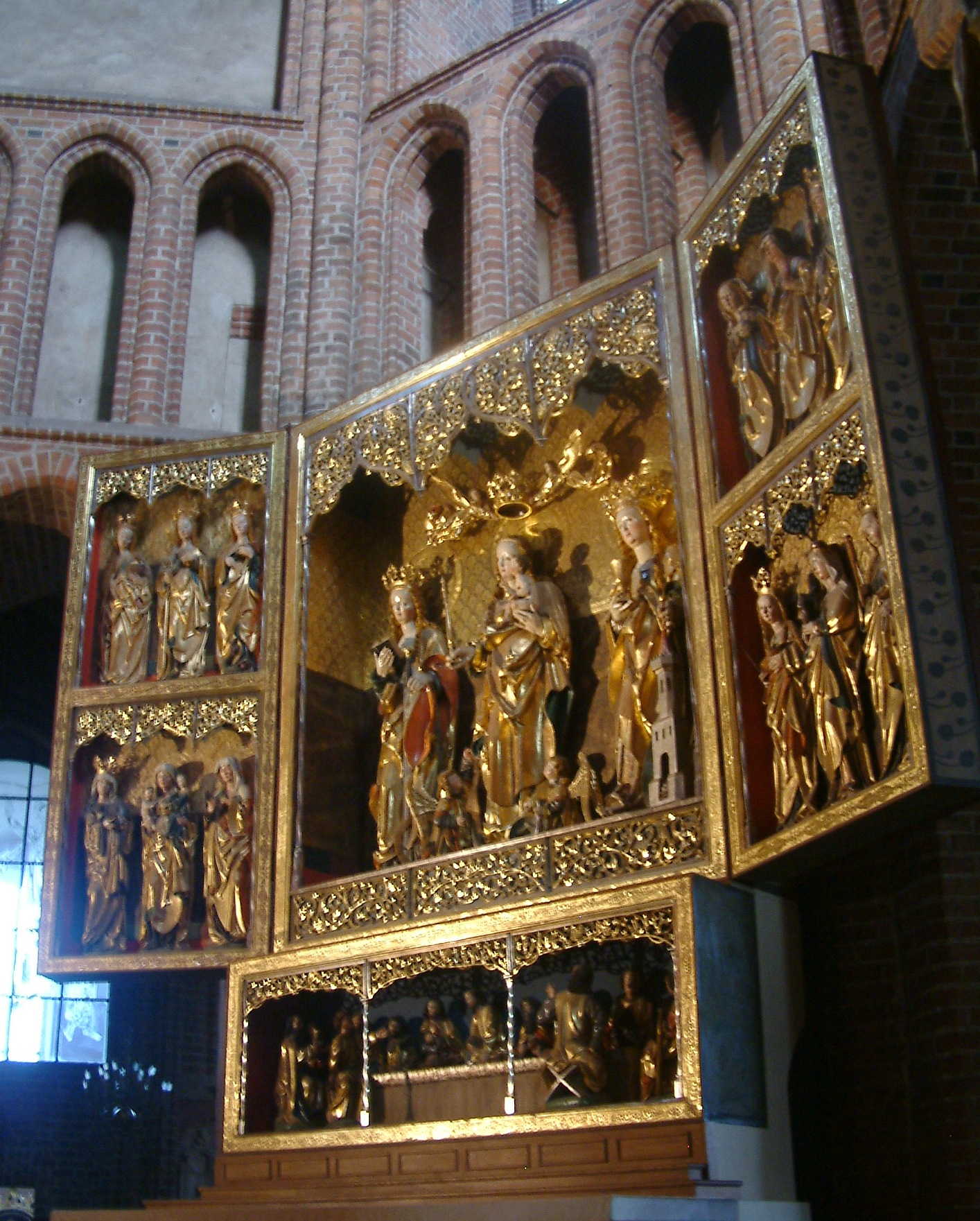 Gothic altar in Archicathedral Basilica, Poznań